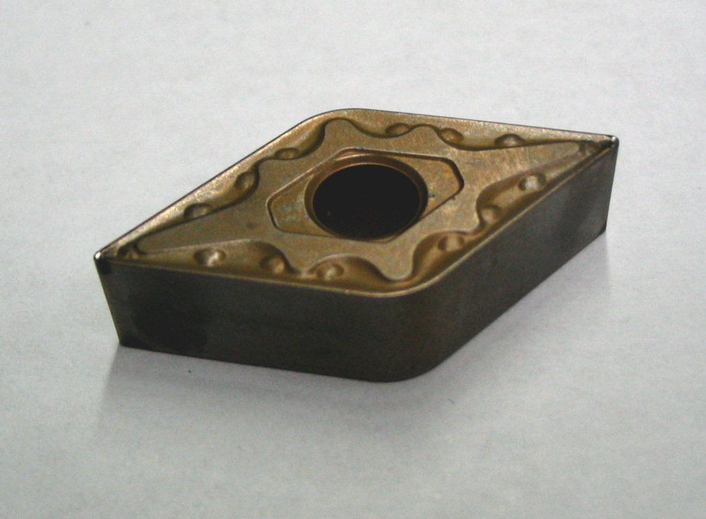 Wendeschneidplatte / disposable insert with chip breaker